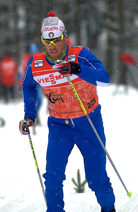 Fabio Pasini at the Tour de Ski 2010 in Oberhof